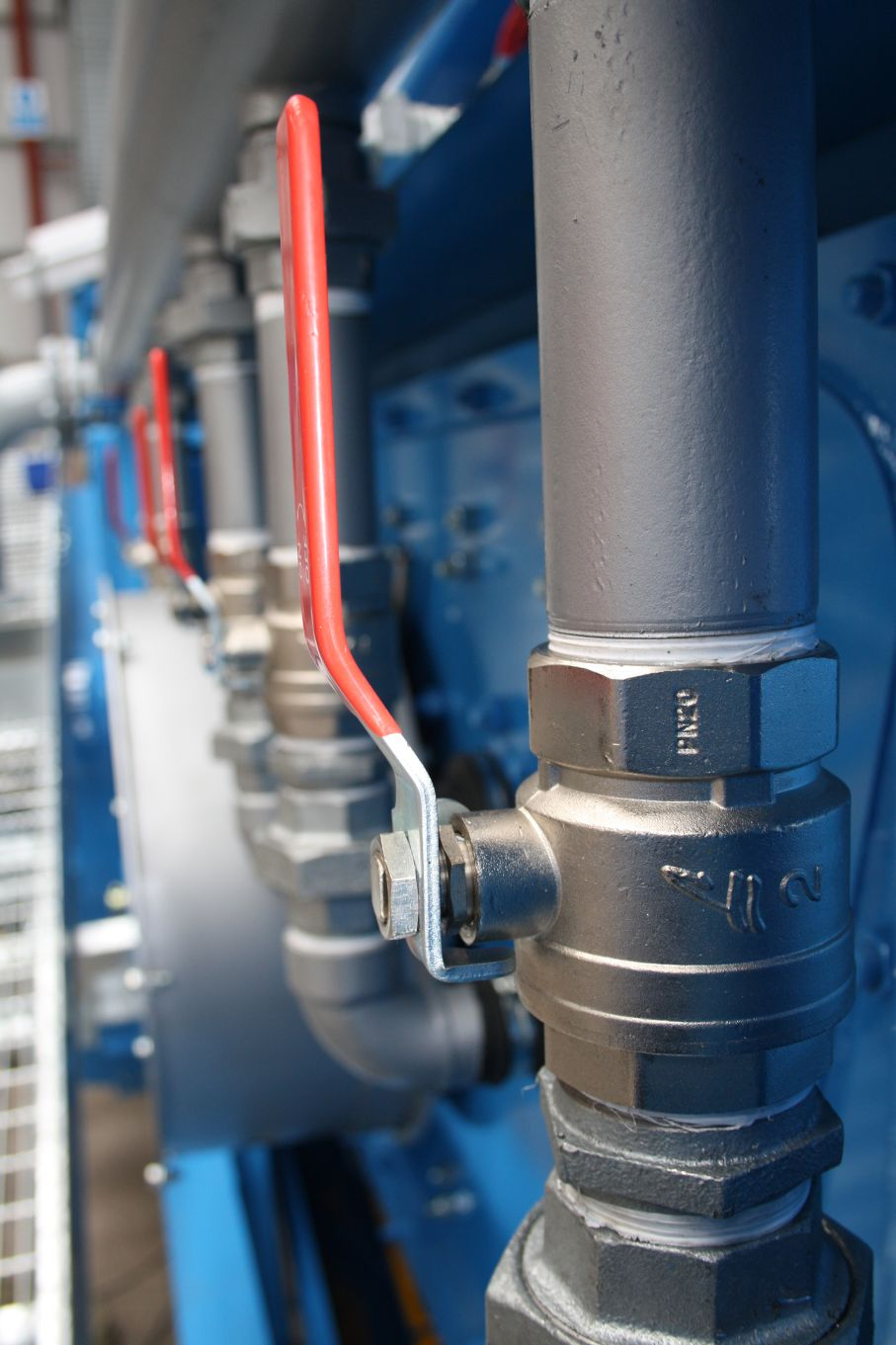 Factory M2500 washing system close up